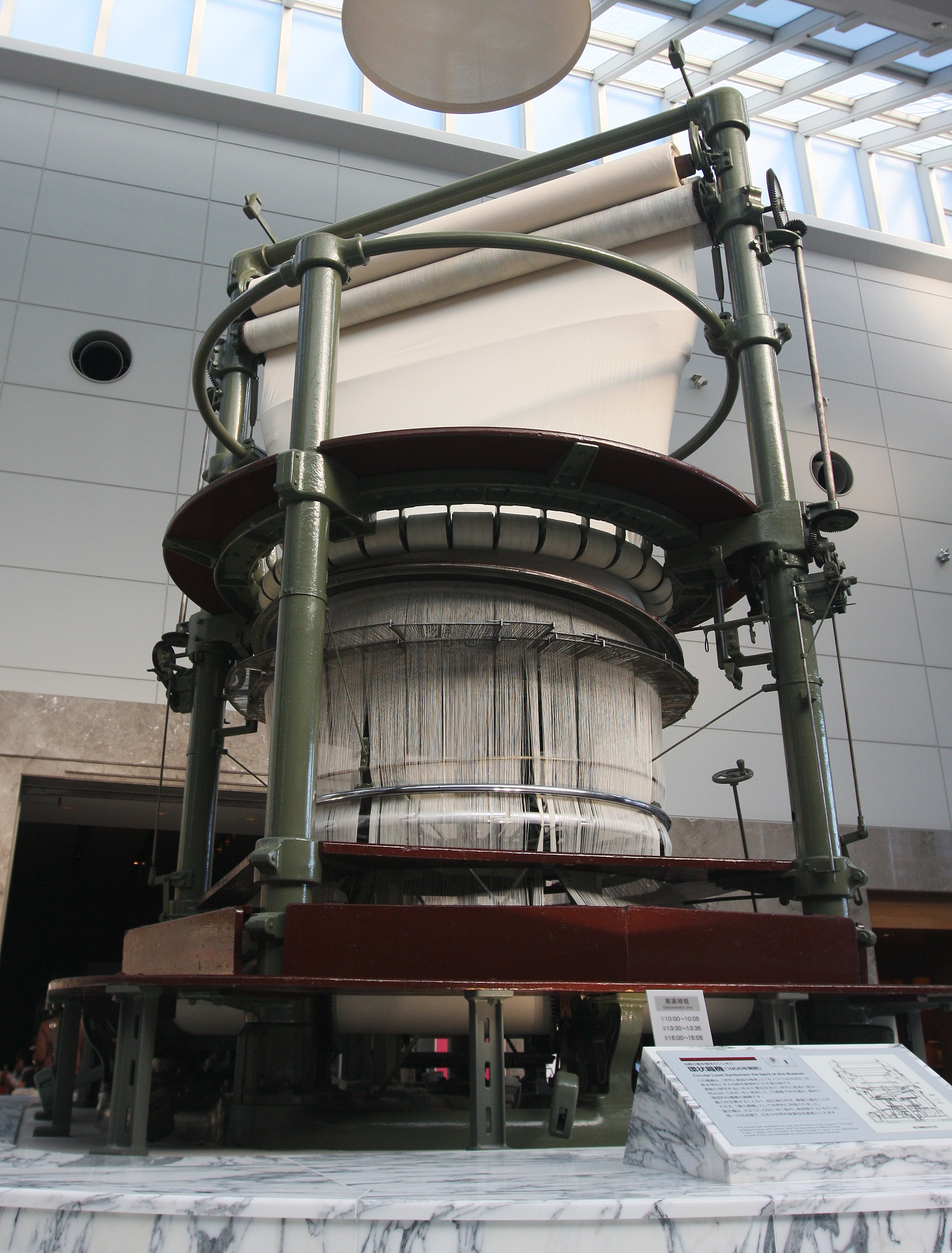 1906 Toyoda circular loom